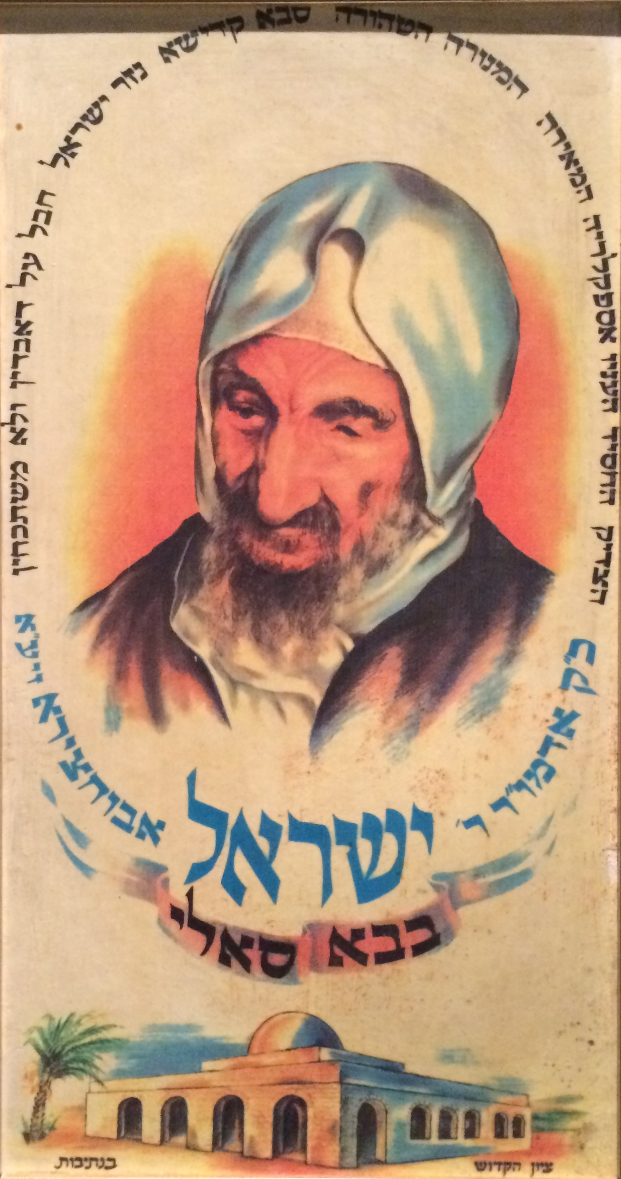 Poster representing the Baba Sali, Rabbi Israel Abouhaseira, Paris Museum of Jewish Art and History